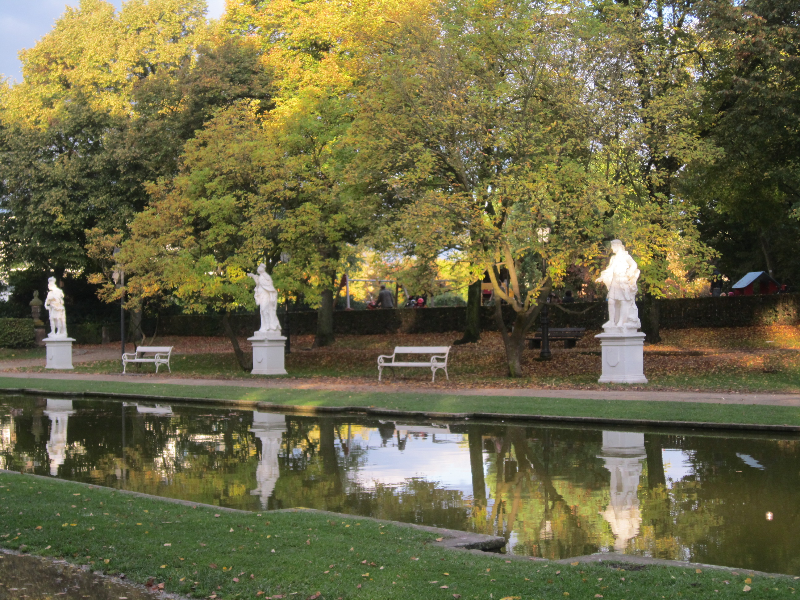 Ferdinand Tietz statues in Trier Palace Garden